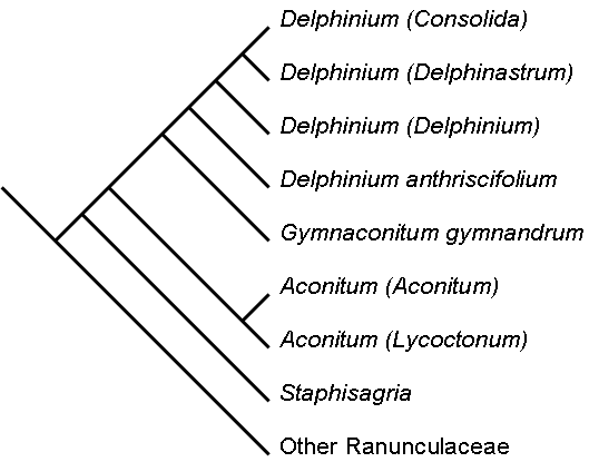 A cladogram of the genera and subgenera of the Ranunculid tribe Delphinieae, based on Florian Jabbour and Susanne S.Renner (2012). A phylogeny of Delphinieae (Ranunculaceae) shows that Aconitum is nested within Delphinium and that Late Miocene transition to long life cycles in the Himalayas and Southwest China coincide with bursts in diversification. Molecular Phylogenetics and Evolution 62:928-942 and Wei Wang, Yang Liu, Sheng-Xiang Yu, Tian-Gang Gai and Zhi-Duan Chen (2013). Gymnaconitum, a new genus of Ranunculaceae endemic to the Qinghai-Tibetan Plateau. Taxon 62(4):713-722.